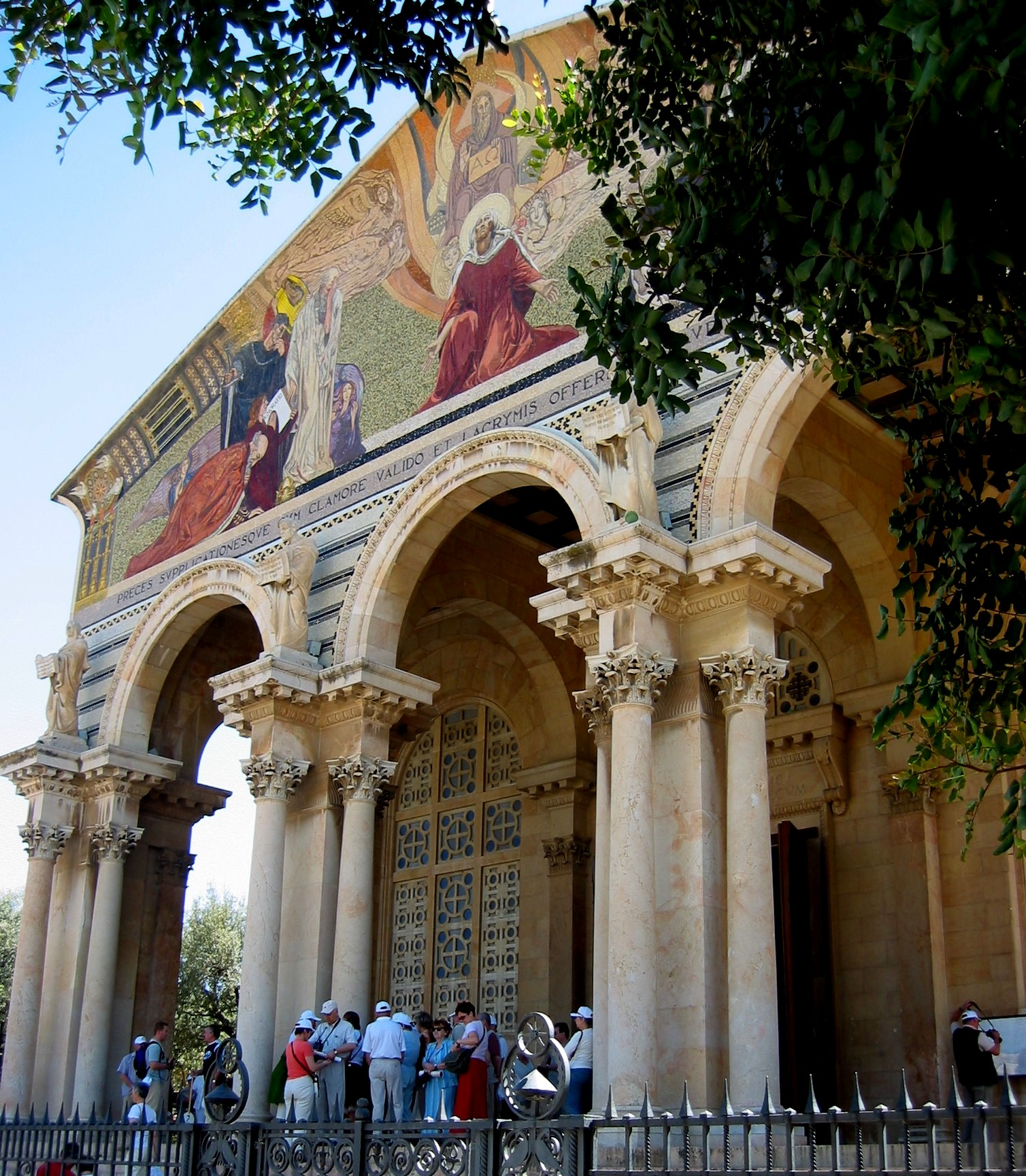 The Church of All Nations,at the foot of the Mount of Olives in Jerusalem, is built over the rock where Jesus is said to have prayed in agony the night before he was crucified. Adjacent to the church is the Garden of Gethsemane, with eight ancient olive trees